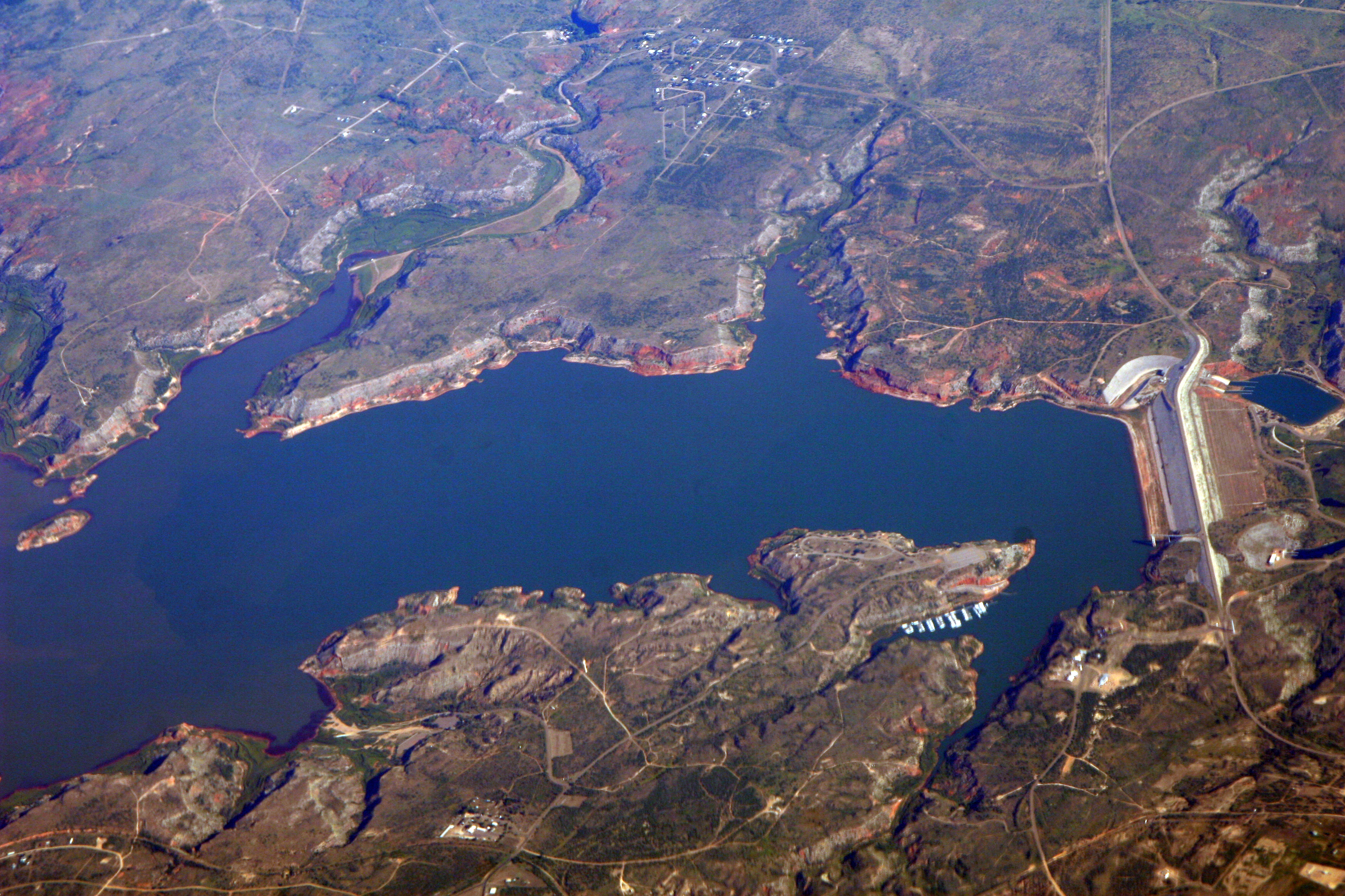 Lake Meredith, near the town sof Sanford and Fritch, north of Amarillo, Texas.. In the picture are Spring Canyon, Bugbee Canyon and North Canyon. Also oil fields (those white dots with roads leading to them).